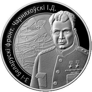 Belarus and the global community. Commemorative Coins "3-i Belaruski front. Charnyahoўski I.D." (3rd Belorussian Front. Chernyakhovsky ID ")